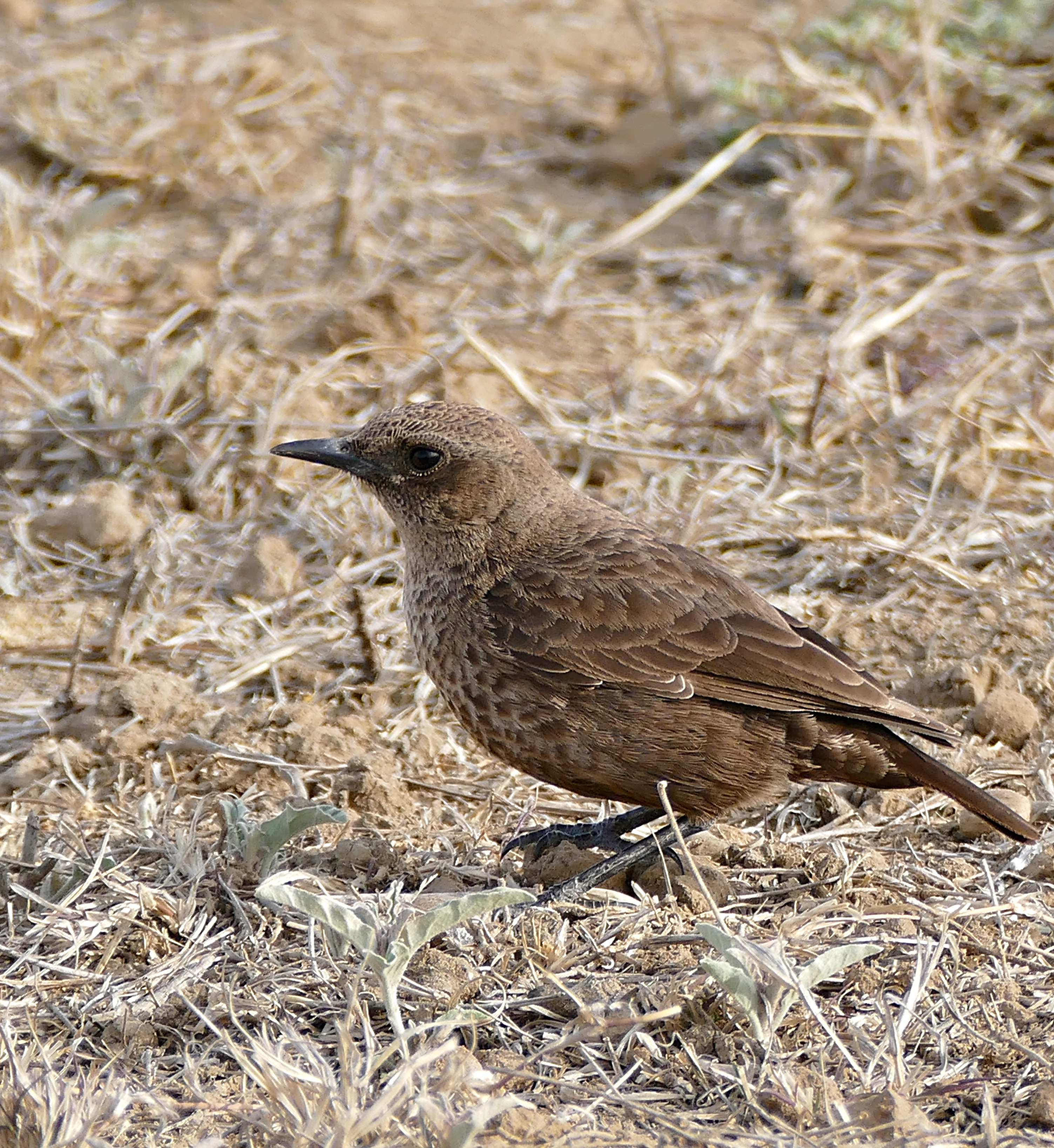 Ubejane Lloop, Mountain Zebra NP, Eastern Cape, SOUTH AFRICA